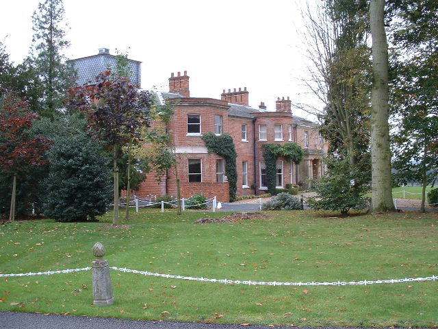 Elcot Park Hotel. SE of Elcot itself.